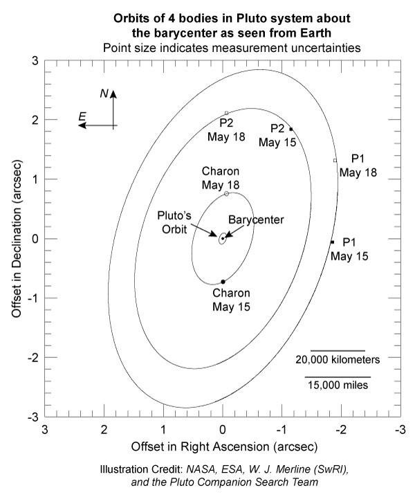 Orbits of 4 Bodies in Pluto System about Barycenter as Seen from Earth. Although a full orbital solution for the satellites cannot be determined from only two Hubble measurements, it turns that their paths closely follow that expected for objects orbiting the Pluto system's barycenter in a perfect circle in the same plane as Charon's orbit. In this diagram, the barycenter is the dot in the center, Pluto's orbit is the smallest ellipse, Charon's orbit is the next ellipse (its position on May 15 and May 18, 2005 are indicated by the filled and open circles, respectively), an orbit that is consistent with P2's measured positions is next, followed by an orbit that is consistent with P1's measured positions. For both of the latter cases, the filled squares are positions on May 15 and open squares are positions on May 18. Note that projection effects cause these circular orbits to look elliptical on the plane of the sky.